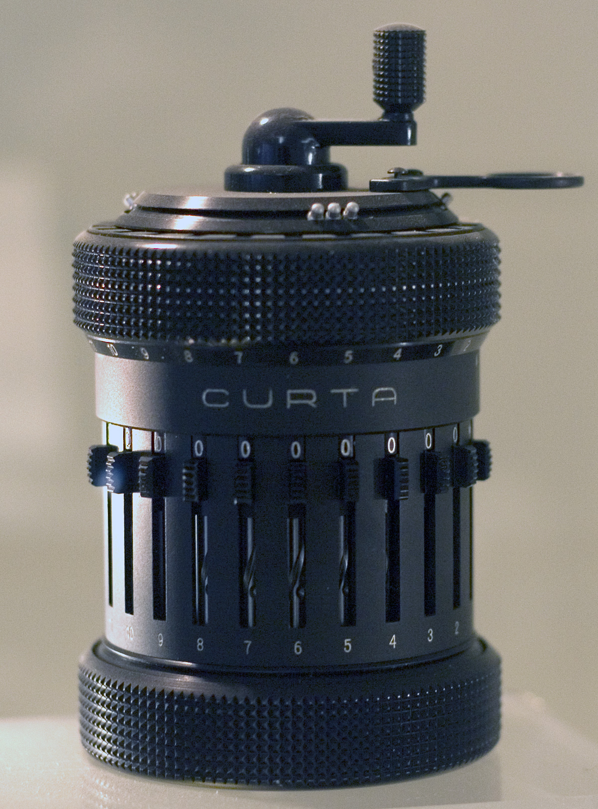 A Curta Type II mechanical computer on display at the National Museum of Computing, Bletchley Park